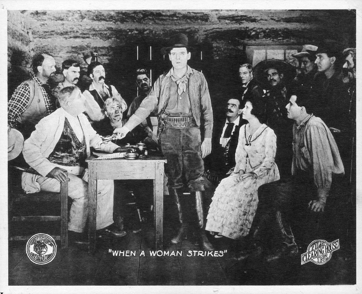 Lobby card for the 1919 film When a Woman Strikes.